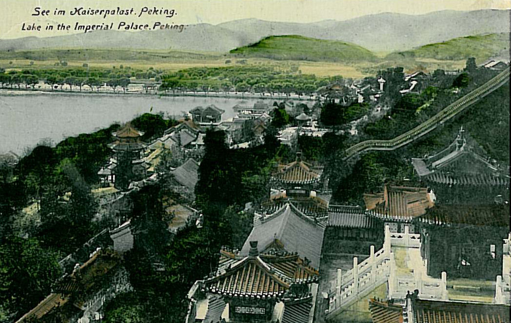 historical view of Peking